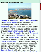 Screenshot of the English Wikipedia's main page on December 20, 2007 viewed with Opera Mini 3 Basic